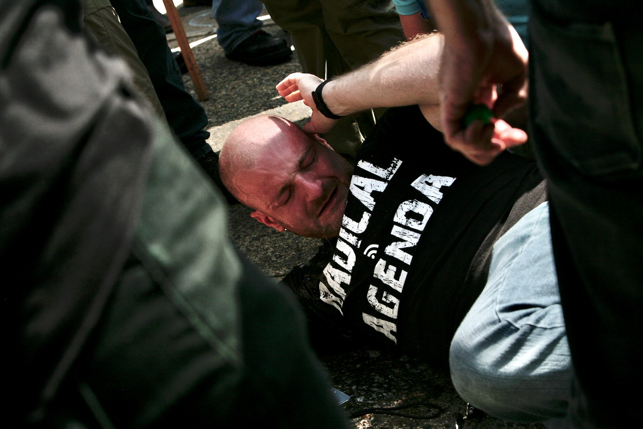 Christopher Cantwell at the Charlottesville Unite the RIght rally. This picture was taken directly after Cantwell was pepper-sprayed on the East side of the park.